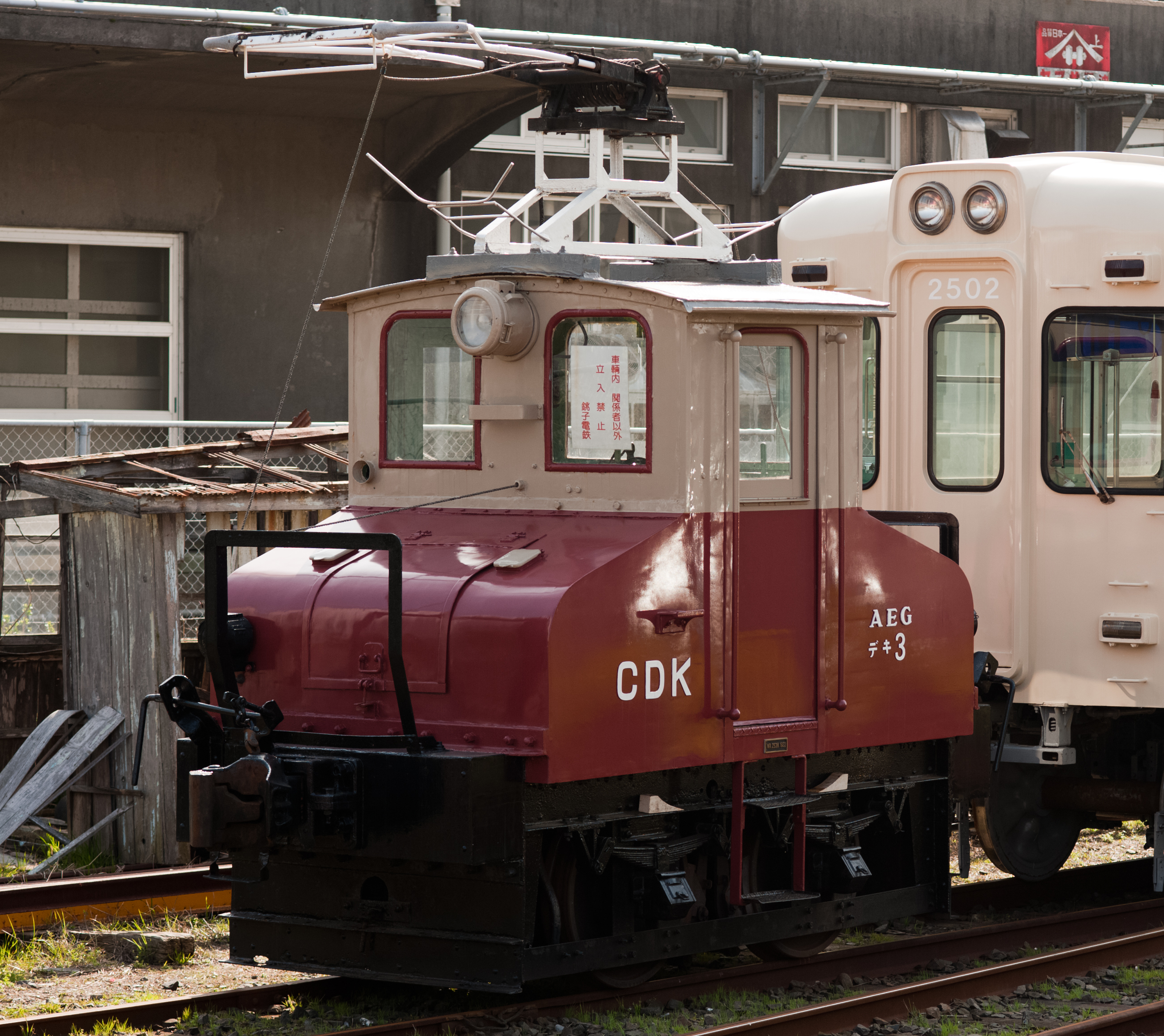 Choshi Electric Railway DeKi 3 Electric locomotive at Nakanocho Depot